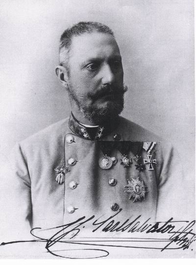 Archduke Karl Salvator of Austria-Toscana 1832-1892, father of Archduke Franz Salvator, father-inlaw of Archduchess Maria Valeria of Austria